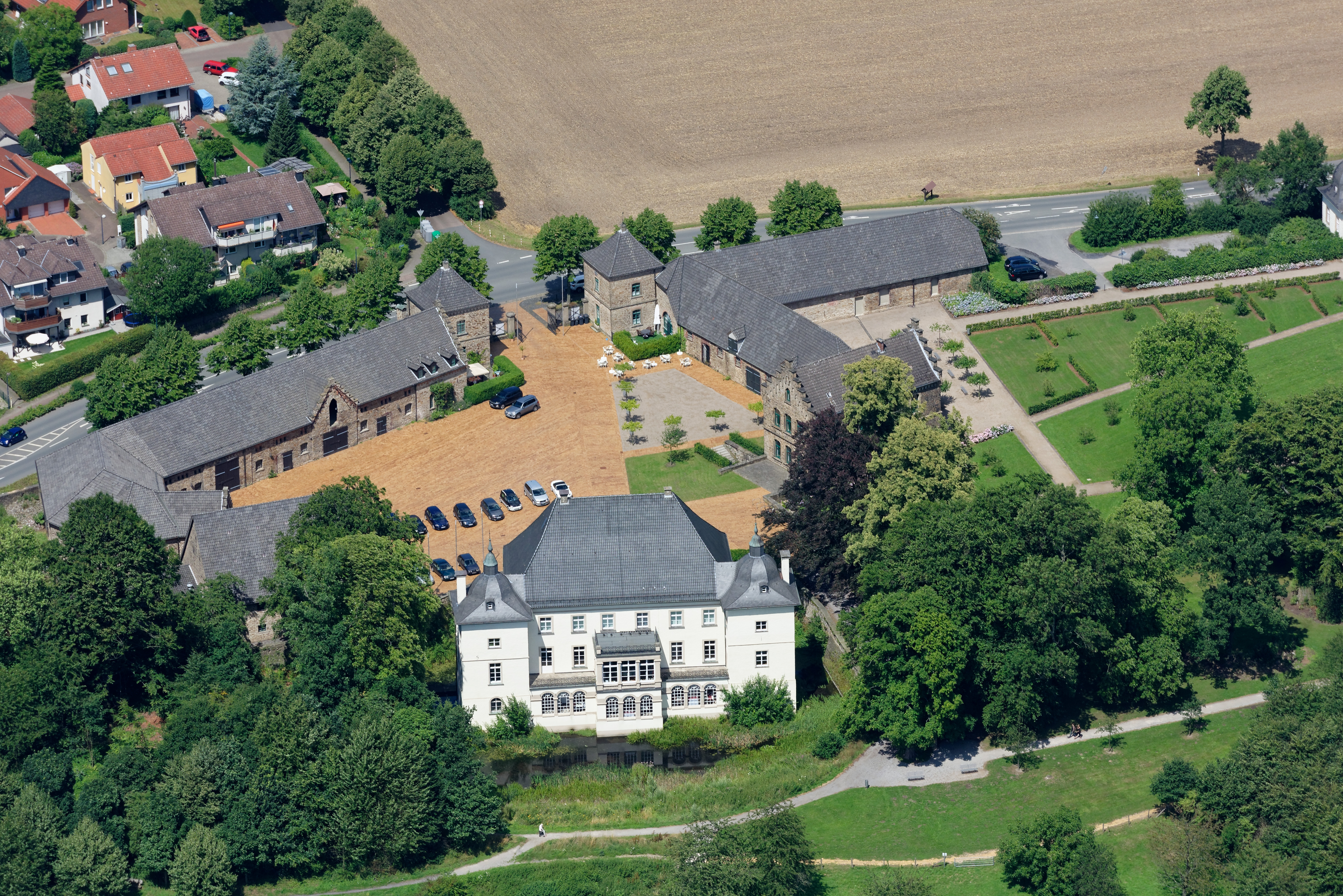 Luftaufnahme von Haus Opherdicke von Süden The making of this document was supported by the Community-Budget of Wikimedia Germany.